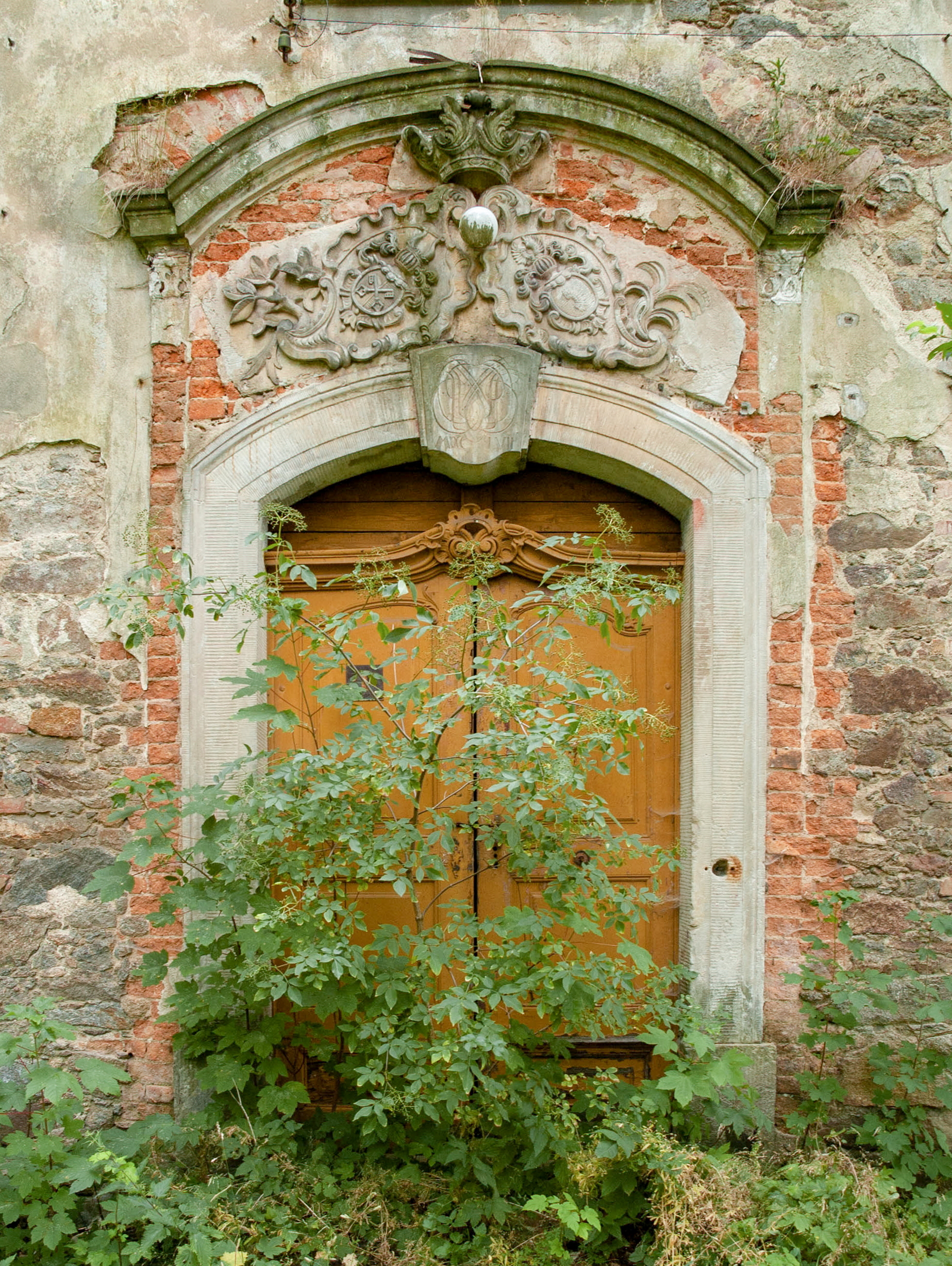 This photograph was created as a part of Wikiexpedition Lower Silesia, a project supported by Wikimedia Poland grant.